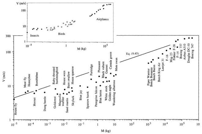 The proportionality between the optimal cruising speed V o p t {\displaystyle V_{opt for flying bodies (insects, birds, airplanes) and body mass M {\displaystyle M} in kg raised to the 1 / 6 {\displaystyle 1/6} is an allometric law predicted by Konstruktalteori: V o p t ∼ 30. M 1 6 m s − 1 {\displaystyle V_{opt}\sim 30.M^{\frac {1}{6 m\,s^{-1